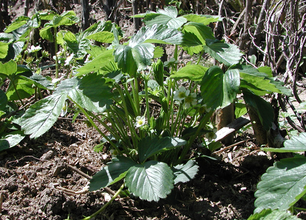 Strawberry plant in flower